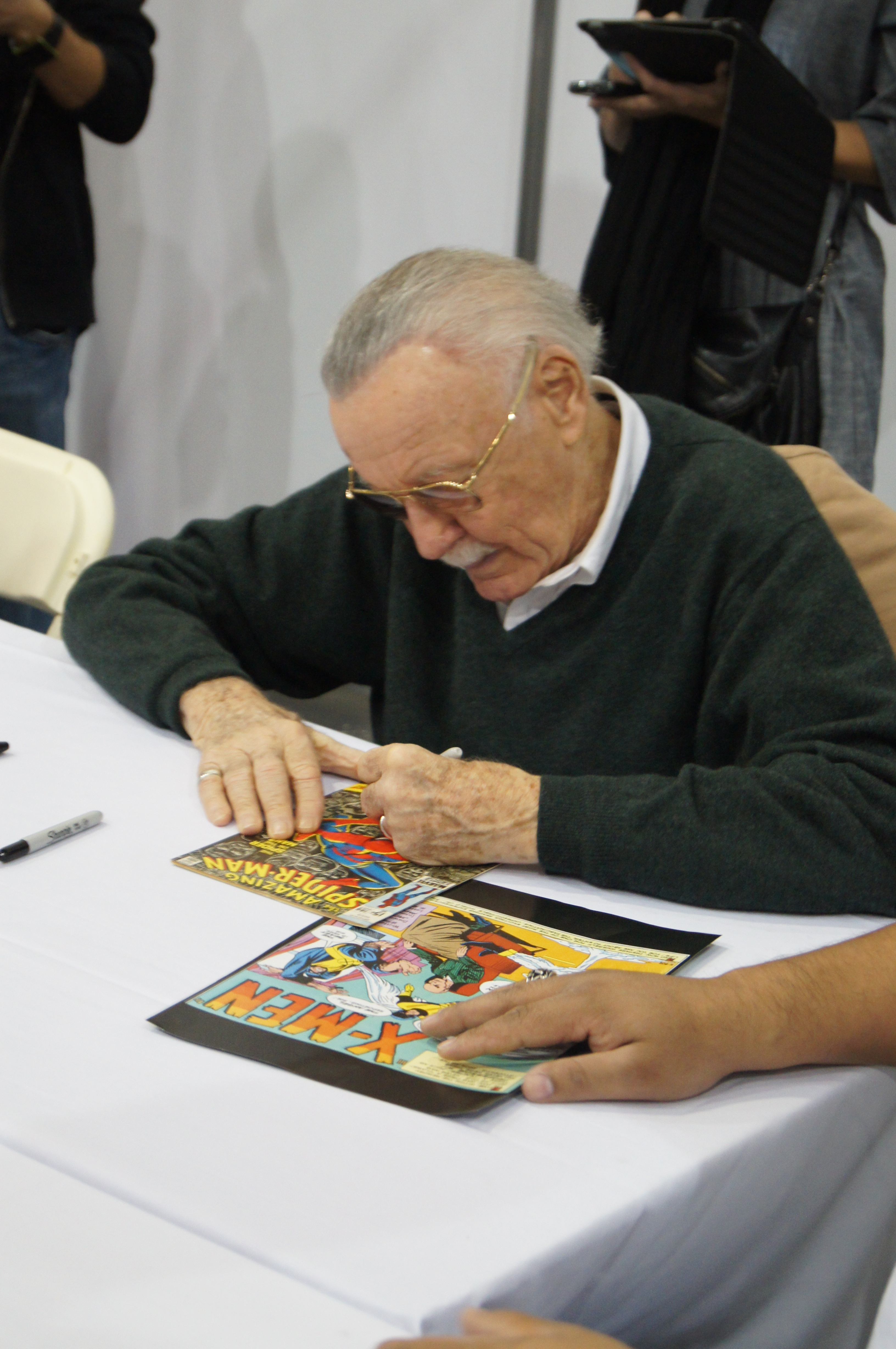 Stan Lee London Super Comic Convention 2012